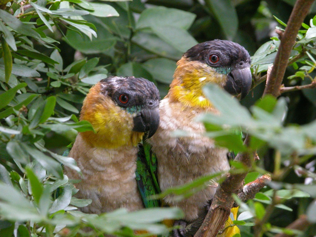 Two Black-headed Parrots in Tiputini, Equador.